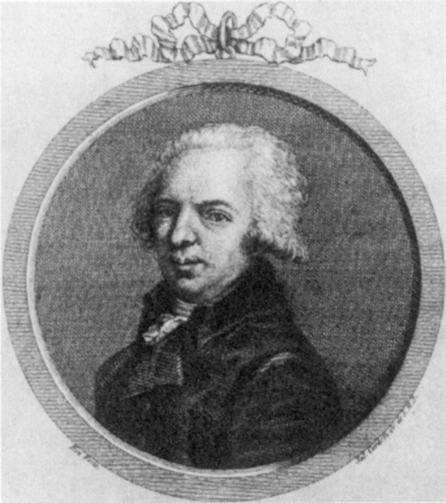 Portrait of Vincenzo Brenna (1747-1820)